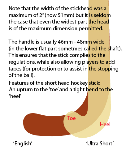 Comparison of the 'English' style hockey stick cica 1930 - 1950 with a so called 'ulta short' head stick 1986. Note on permitted width (51mm) and actual width of most hockey sticks.